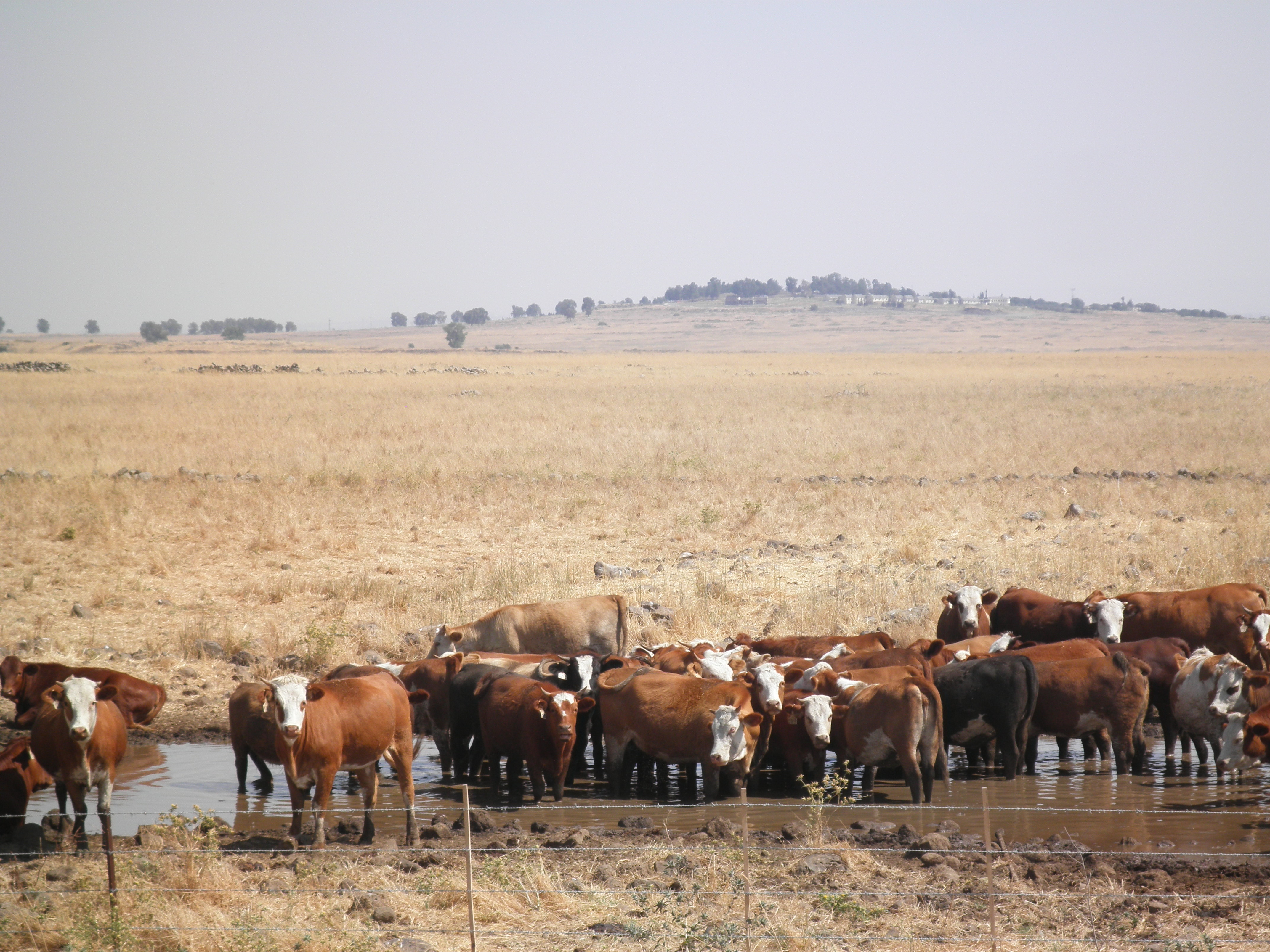 Mt Shifon in the Golan Heights, Israel, as seen from near Merom Golan. Domesticated horses and cows.